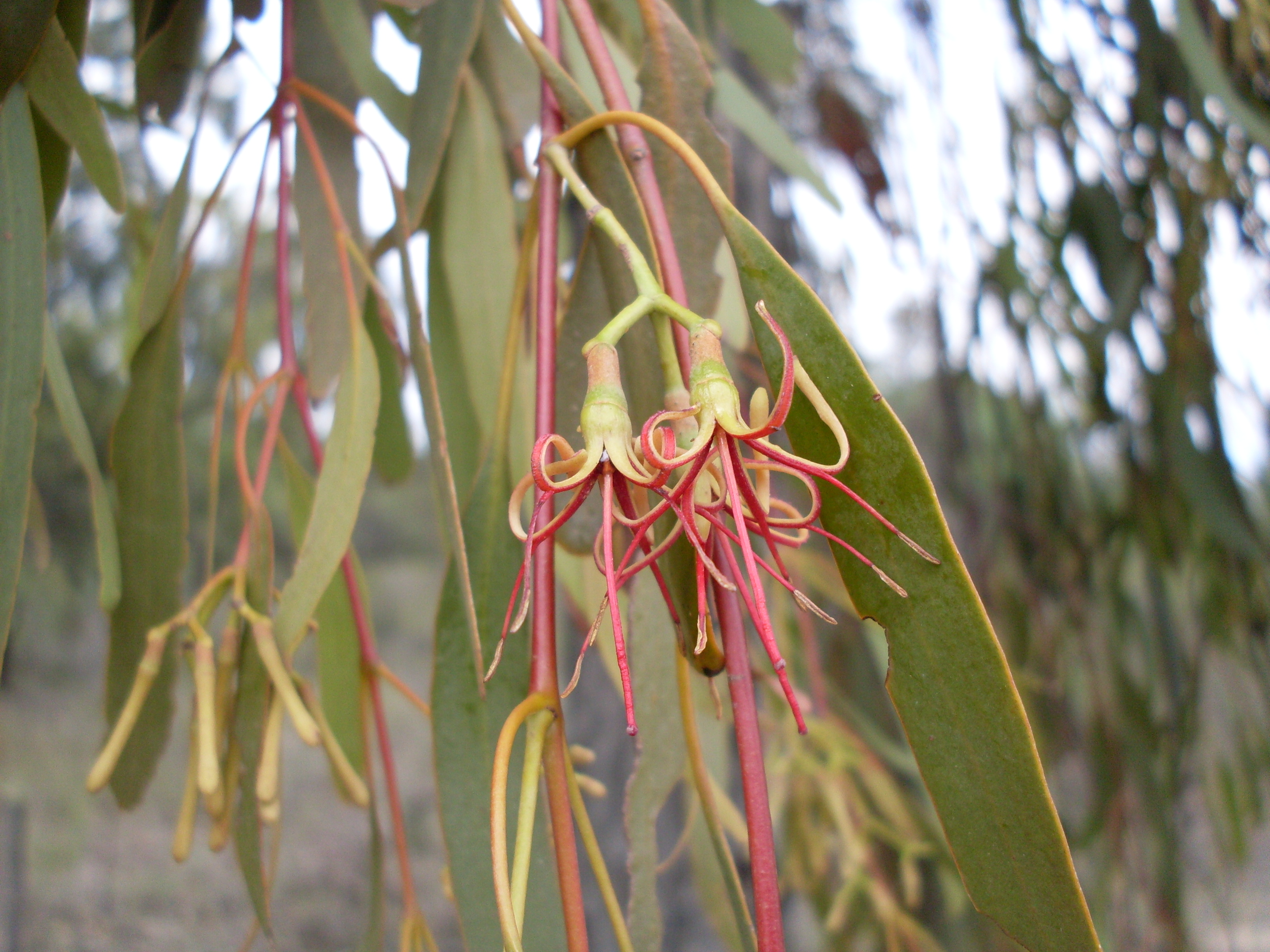 Mistletoe (Muellerina eucalyptoides). Near Ulan, NSW Australia, January 2009.